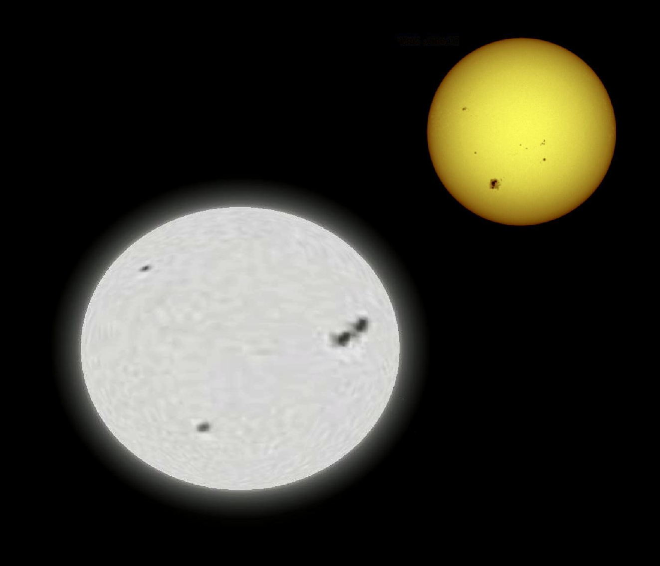 Altair and Sun in scale.